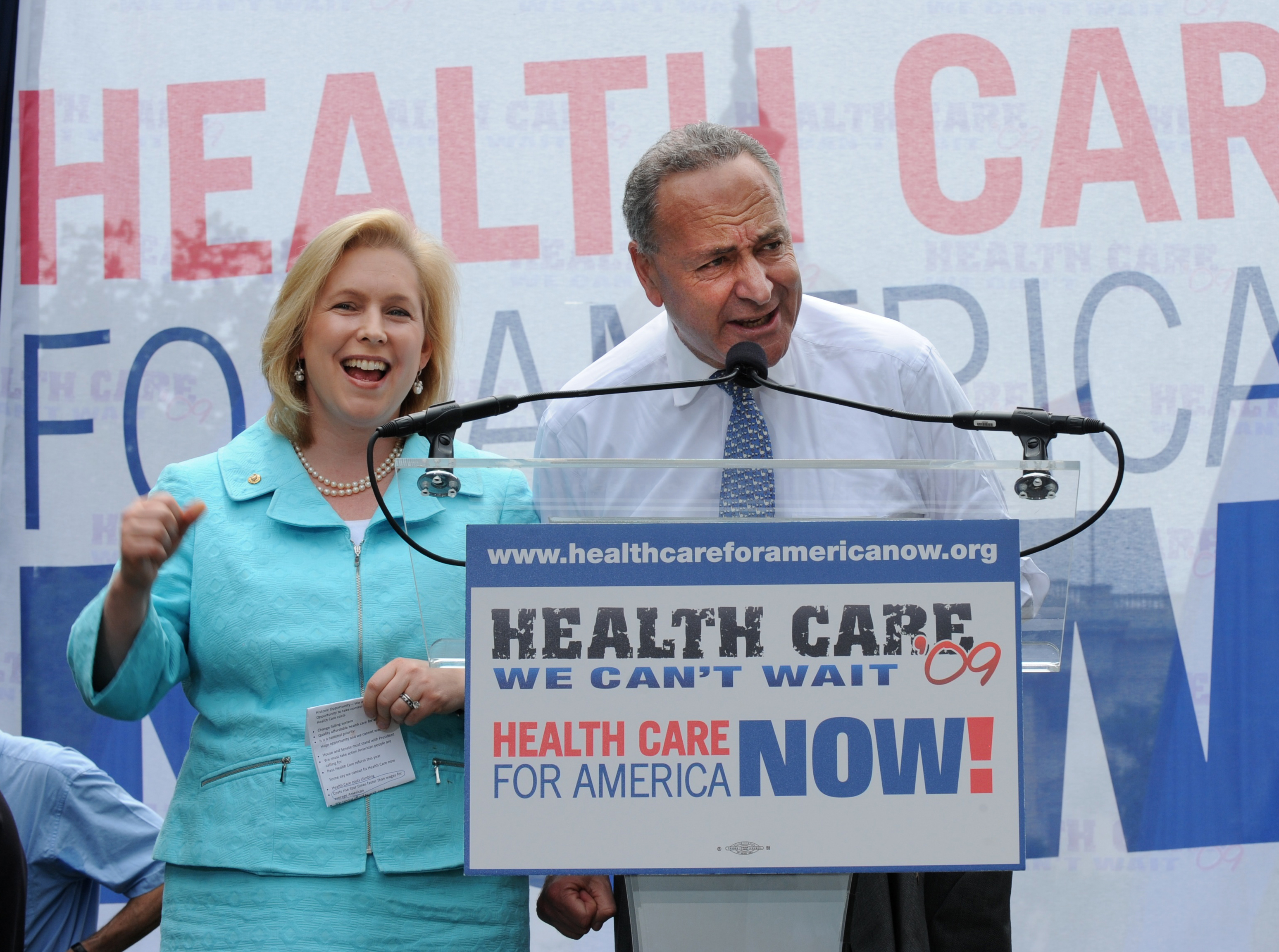 U.S. Senators Chuck Schumer and Kirstin Gillibrand at a rally for health care refore in June 2009